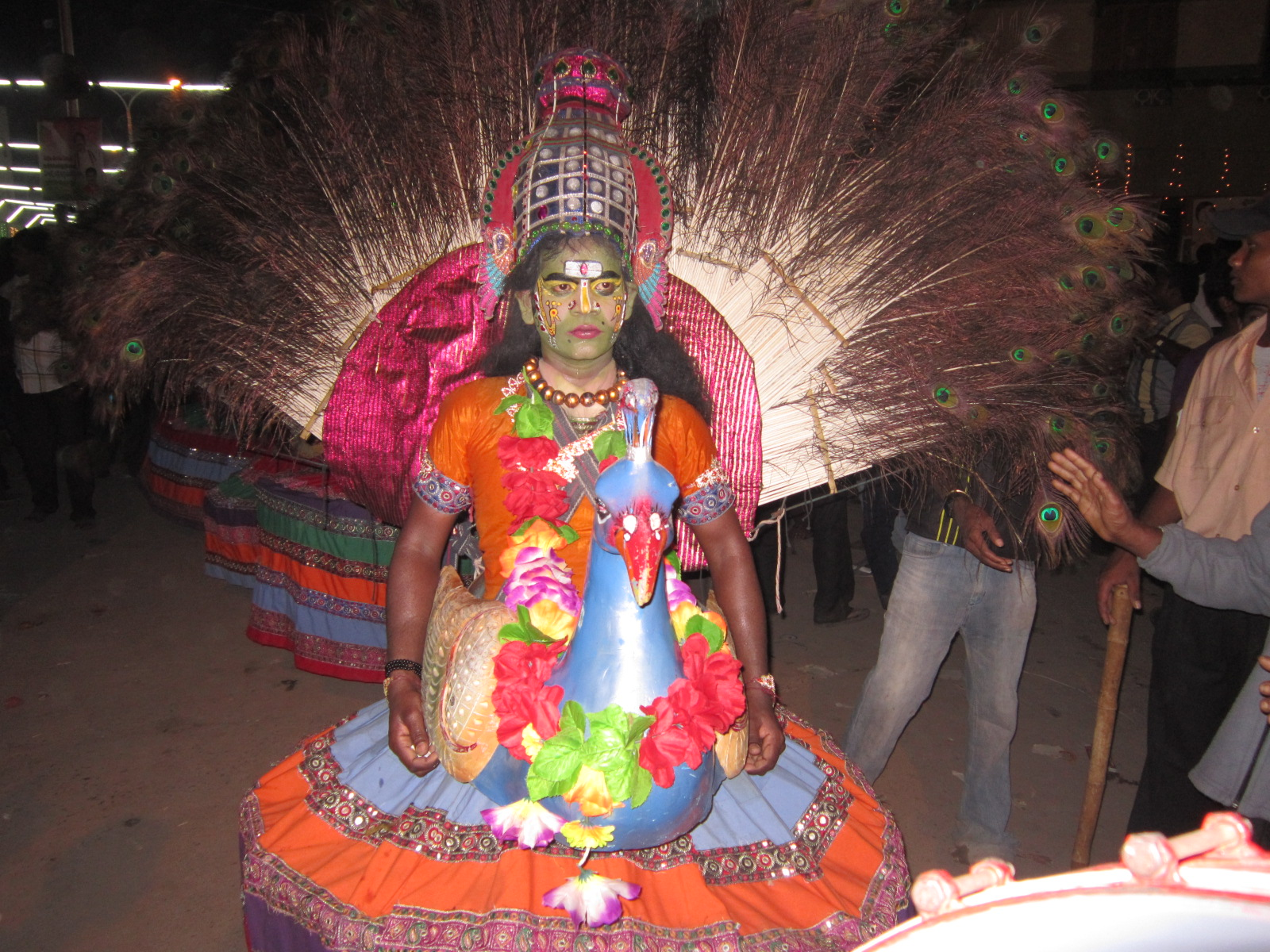 Street dance-peacock dance-in a festival in Andhra Pradesh